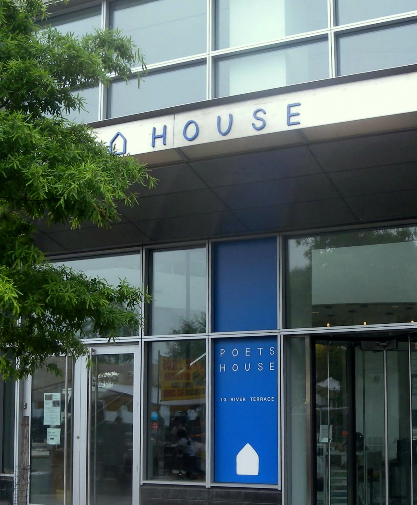 Looking east across River Terrace at Poets House on a cloudy day.